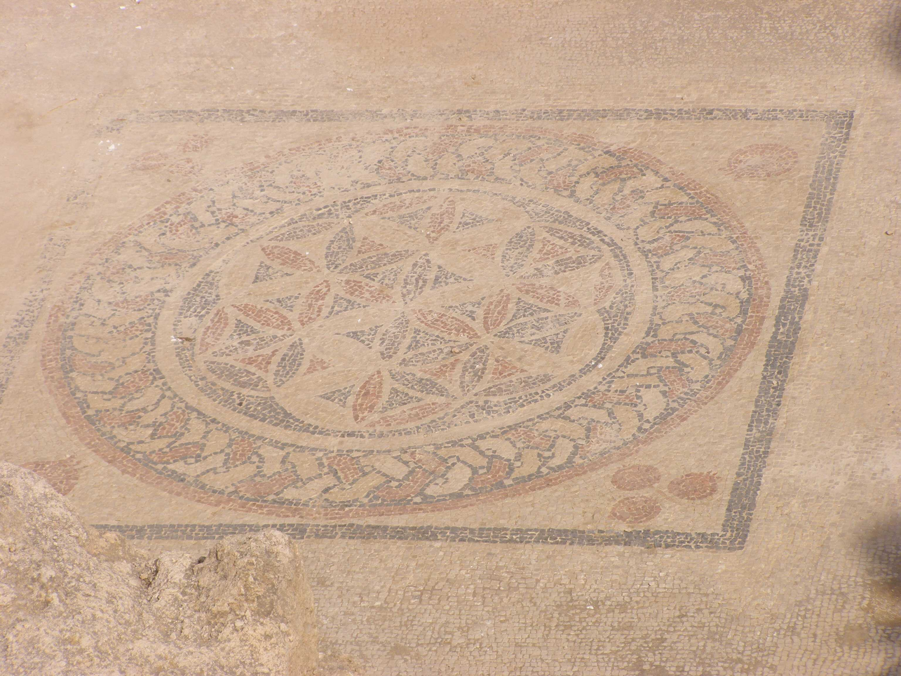 mosaic floor at Herodium down town Public bathing, with form of "seed of life" geometrical pattern.